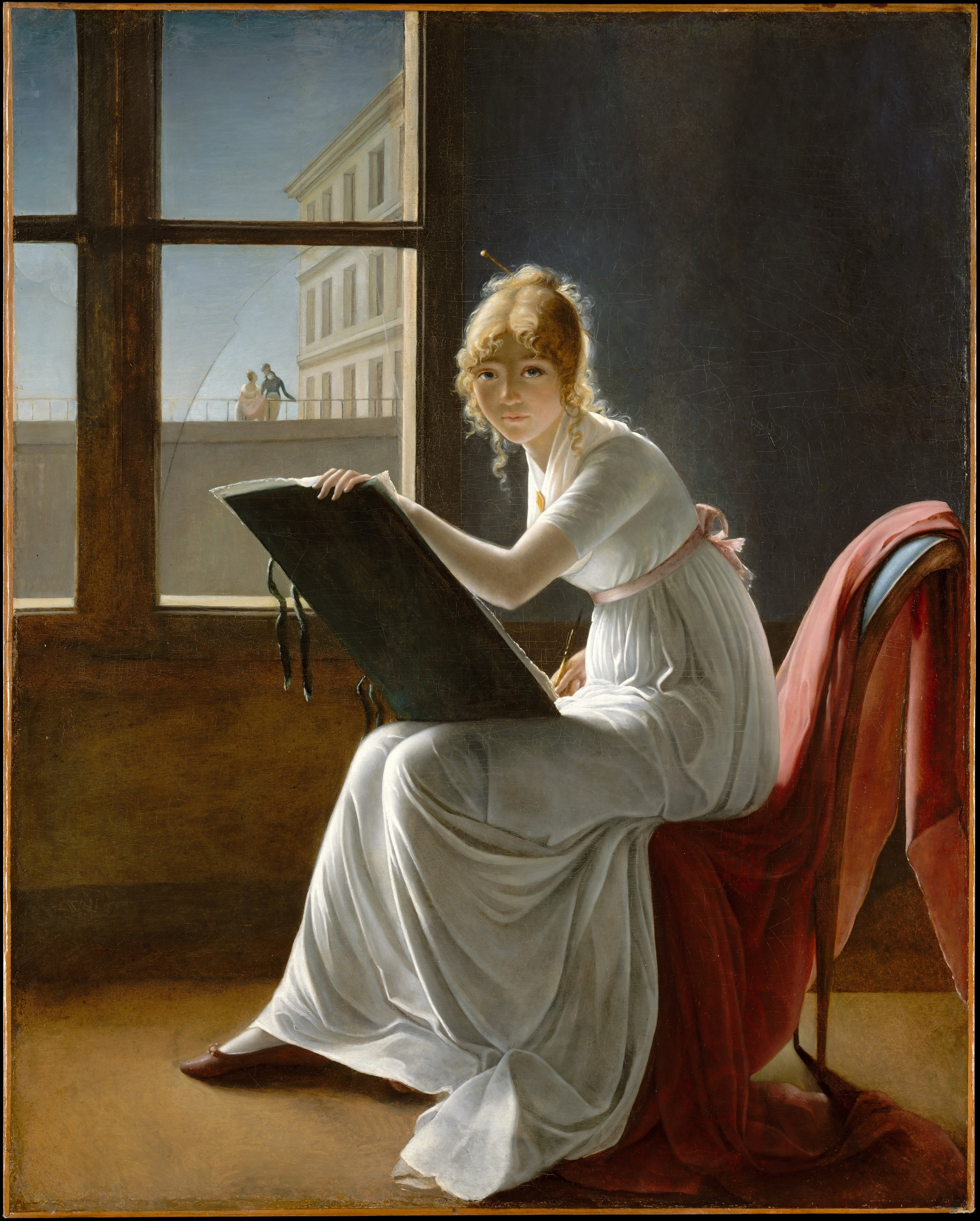 Portrait of a young woman, drawing. Thought to be a portrait of the artist herself.